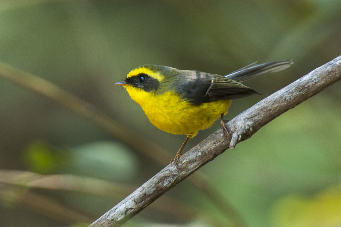 Yellow-bellied Fantail - Corbett NP - India_2149